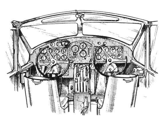 Caudron C.440 cockpit drawing from L'Aerophile December 1936